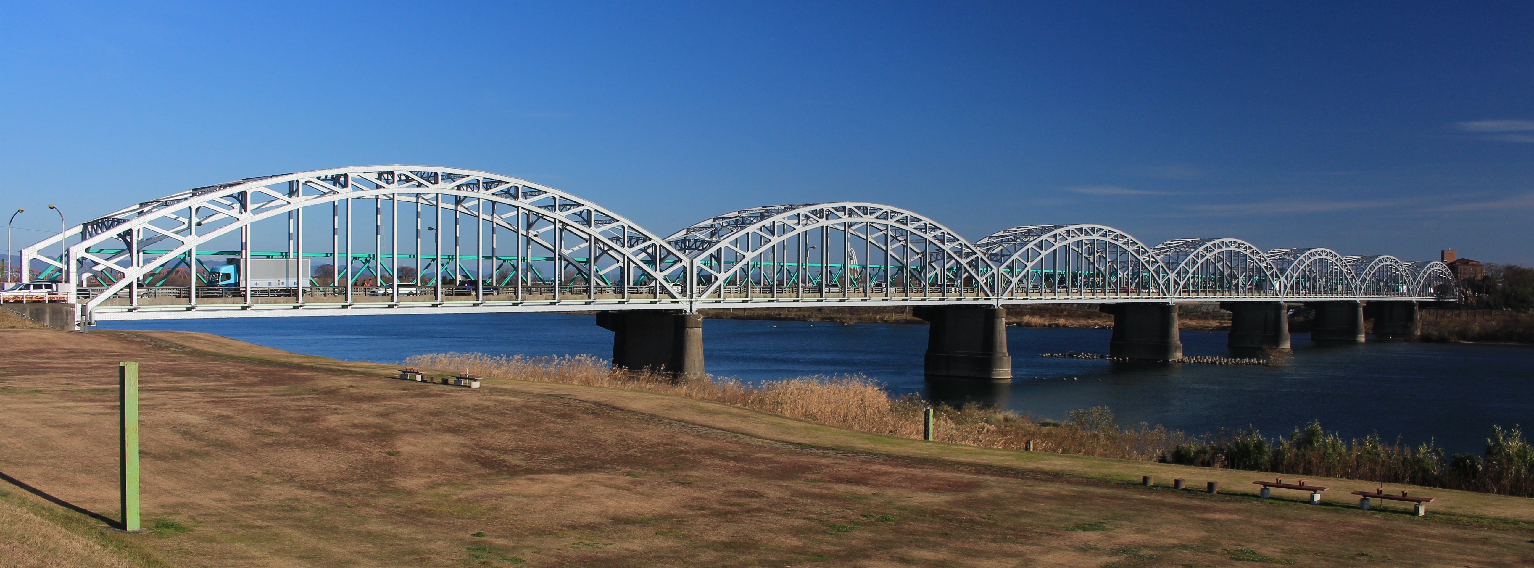 Kisogawa Bridge of Aichi Prefectural Road and Gifu Prefectural Road Route 14 over Kiso River in Japan.